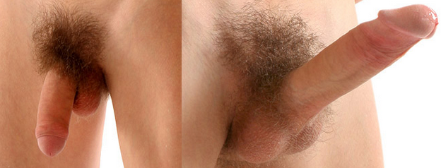 erection